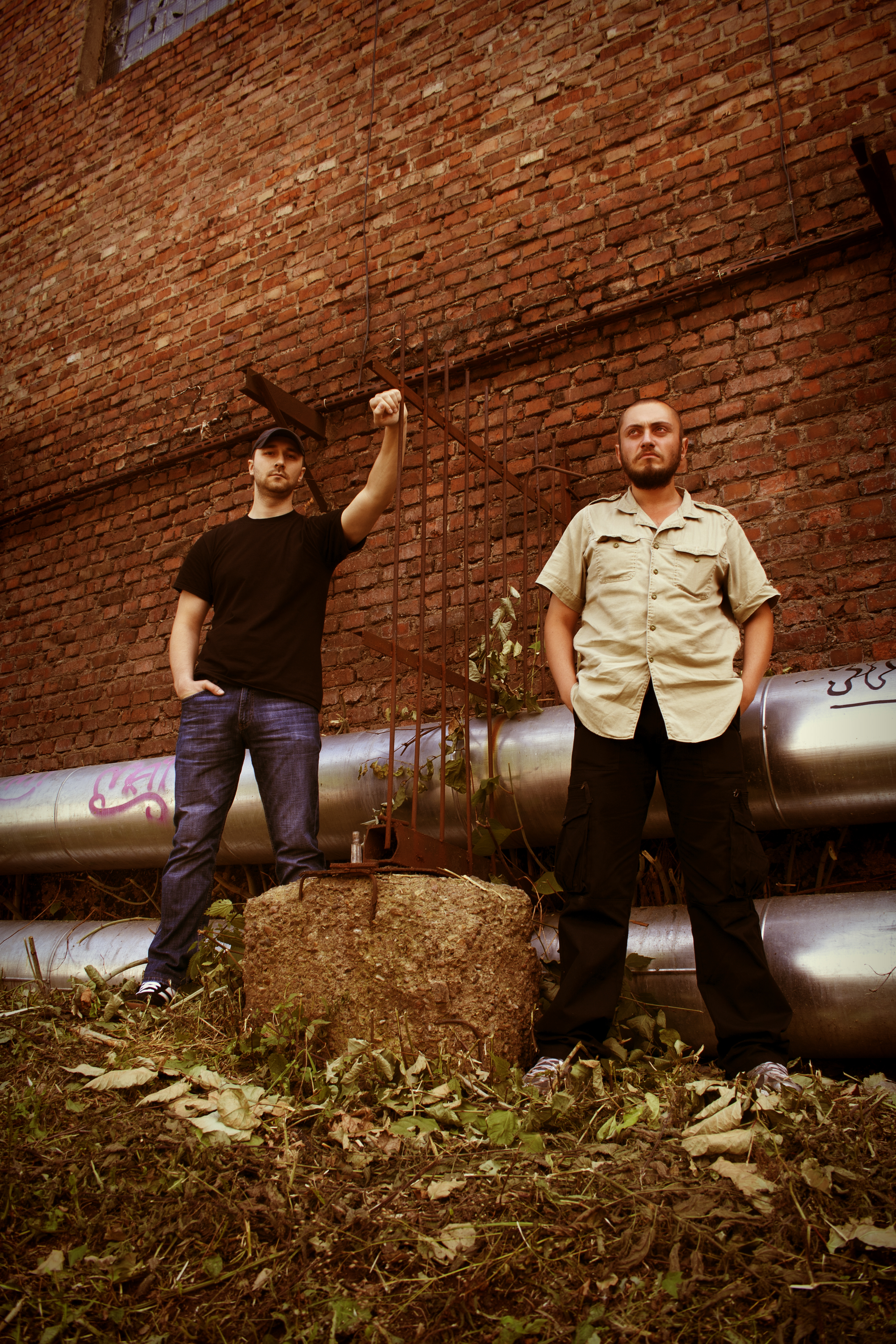 REIDO band photo (24.07.2011).